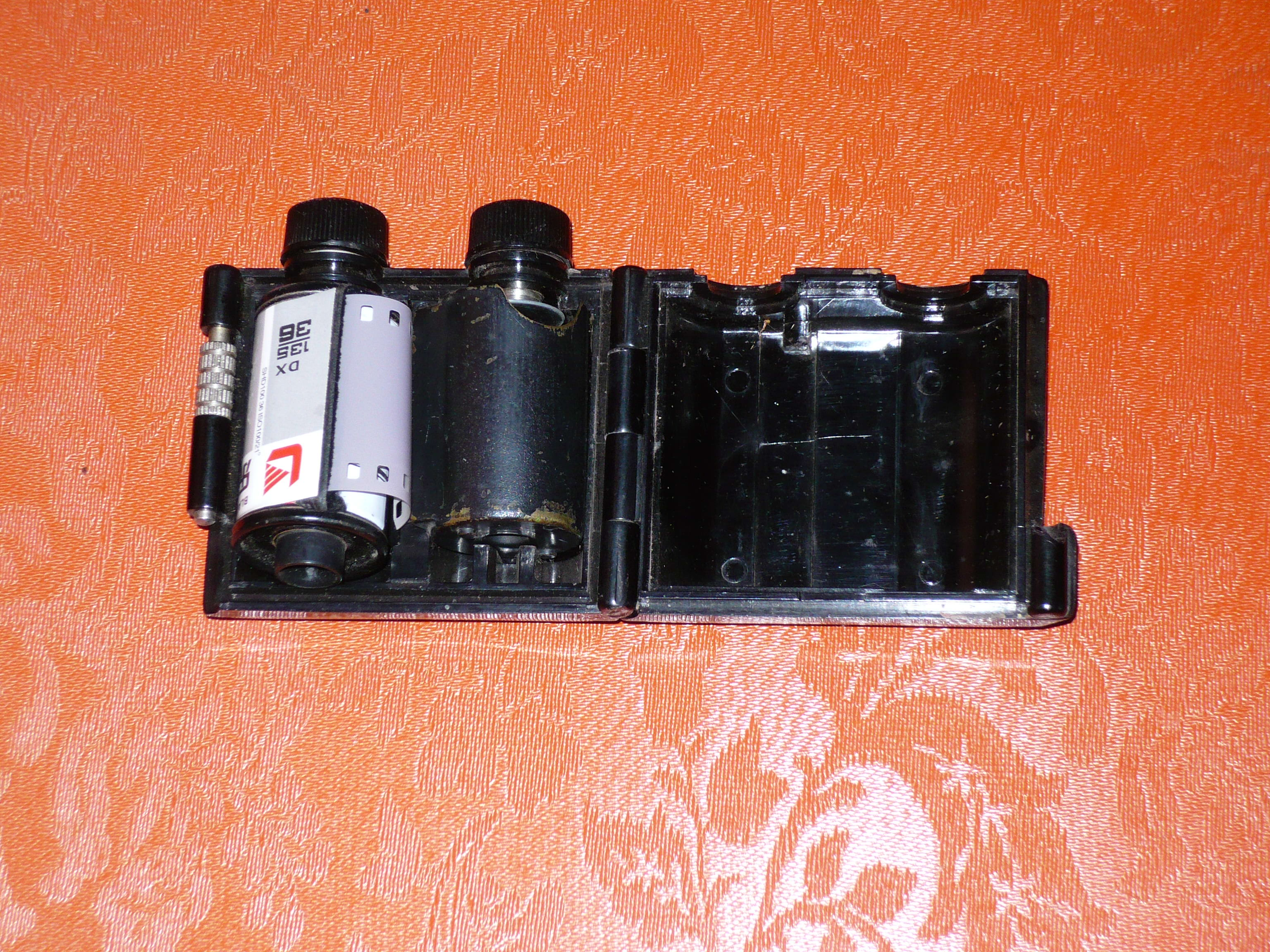 Robot film loader